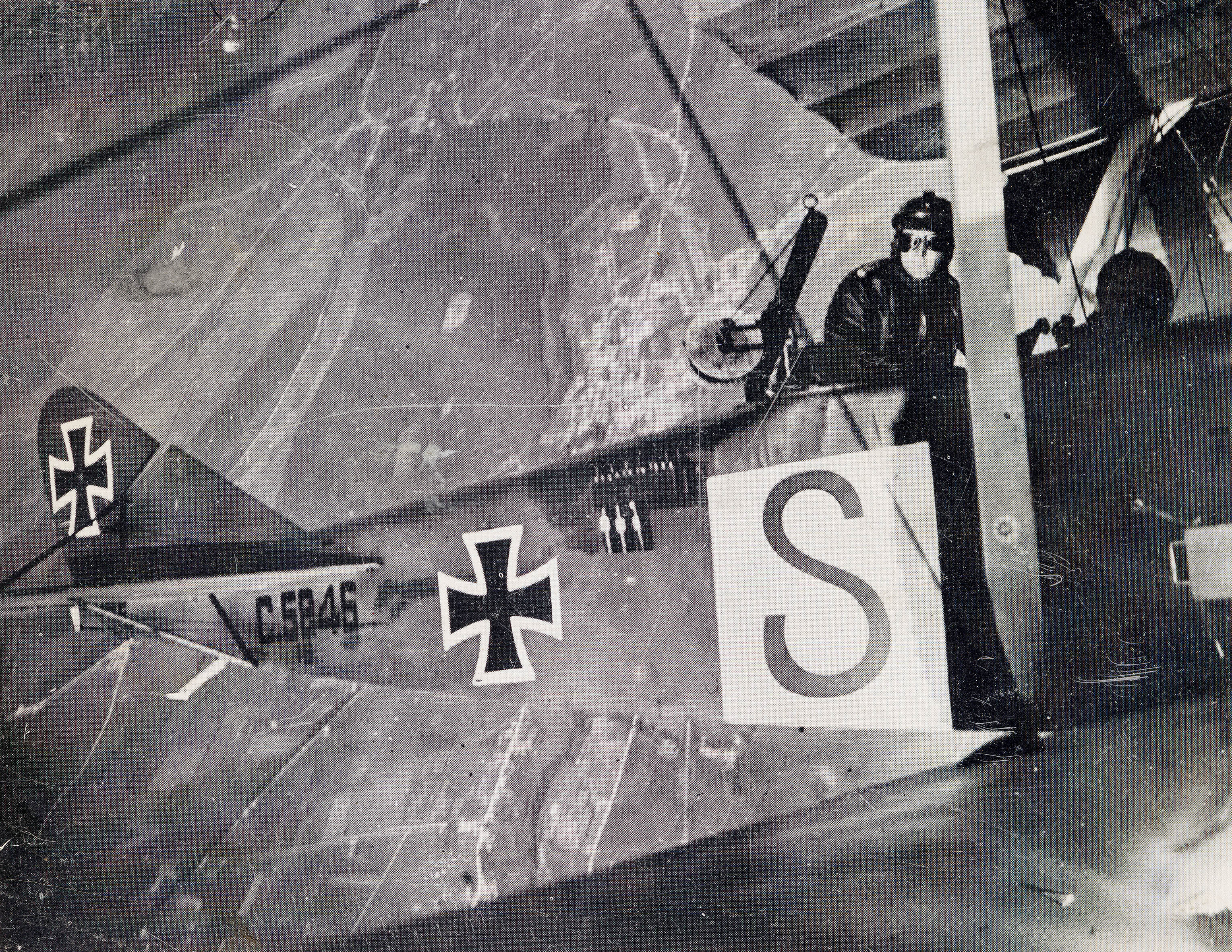 DFW C.V (Aviatik) 5845/16 banking in early morning sunlight. Note the Aviatik trademark on strut; flares in holder behind observer's cockpit; and fully-armed LMG 14 "Parabellum" machine gun. Pilot and squadron unknown.